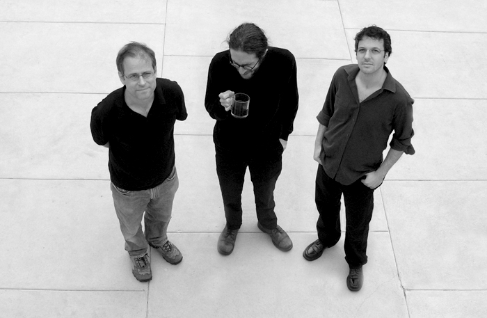 The OpenEnded Group -- from left to right: Paul Kaiser, Marc Downie, Shelley Eshkar.